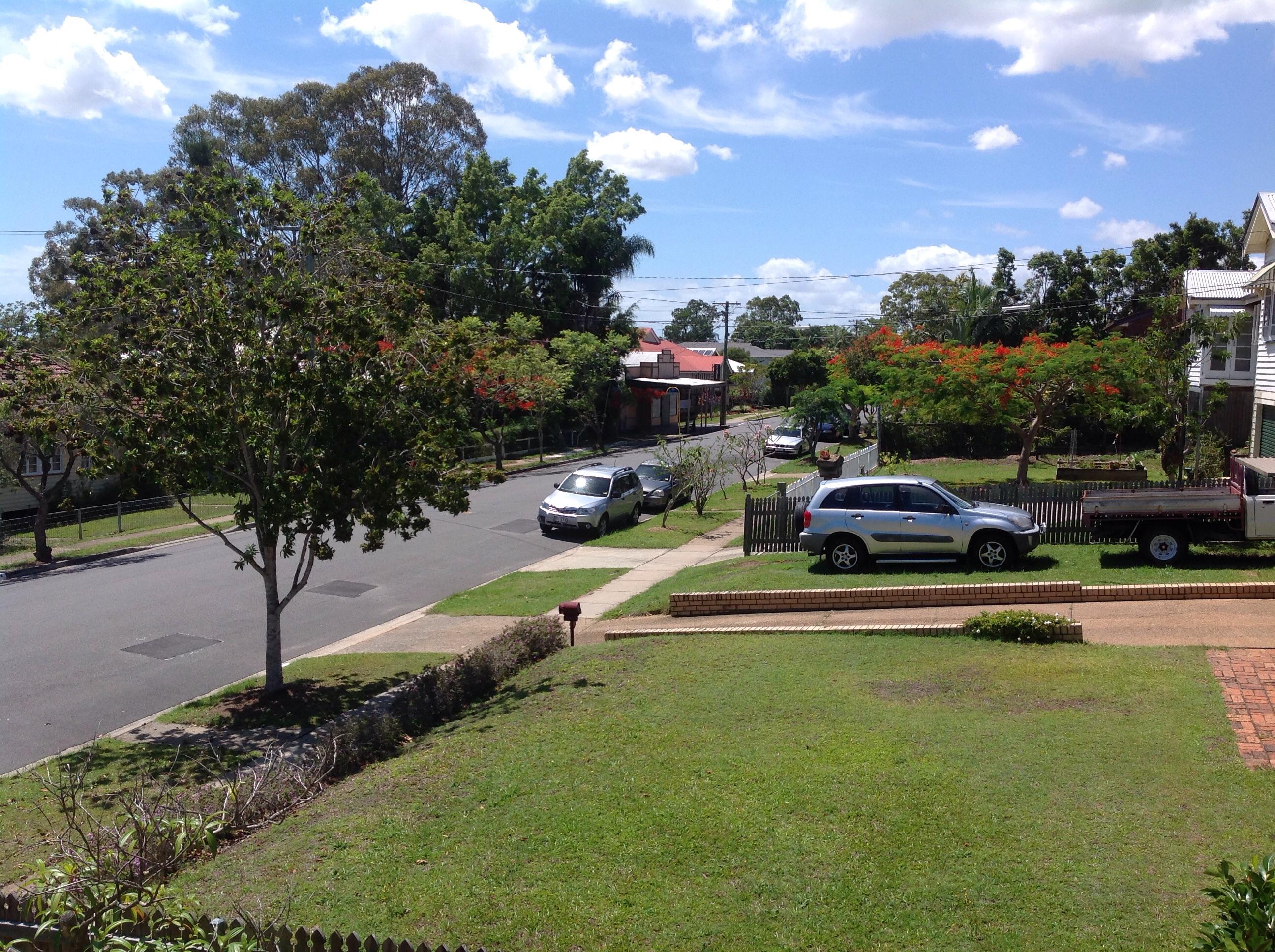 A view of Northgate, Brisbane, Queensland, Australia in 2014.